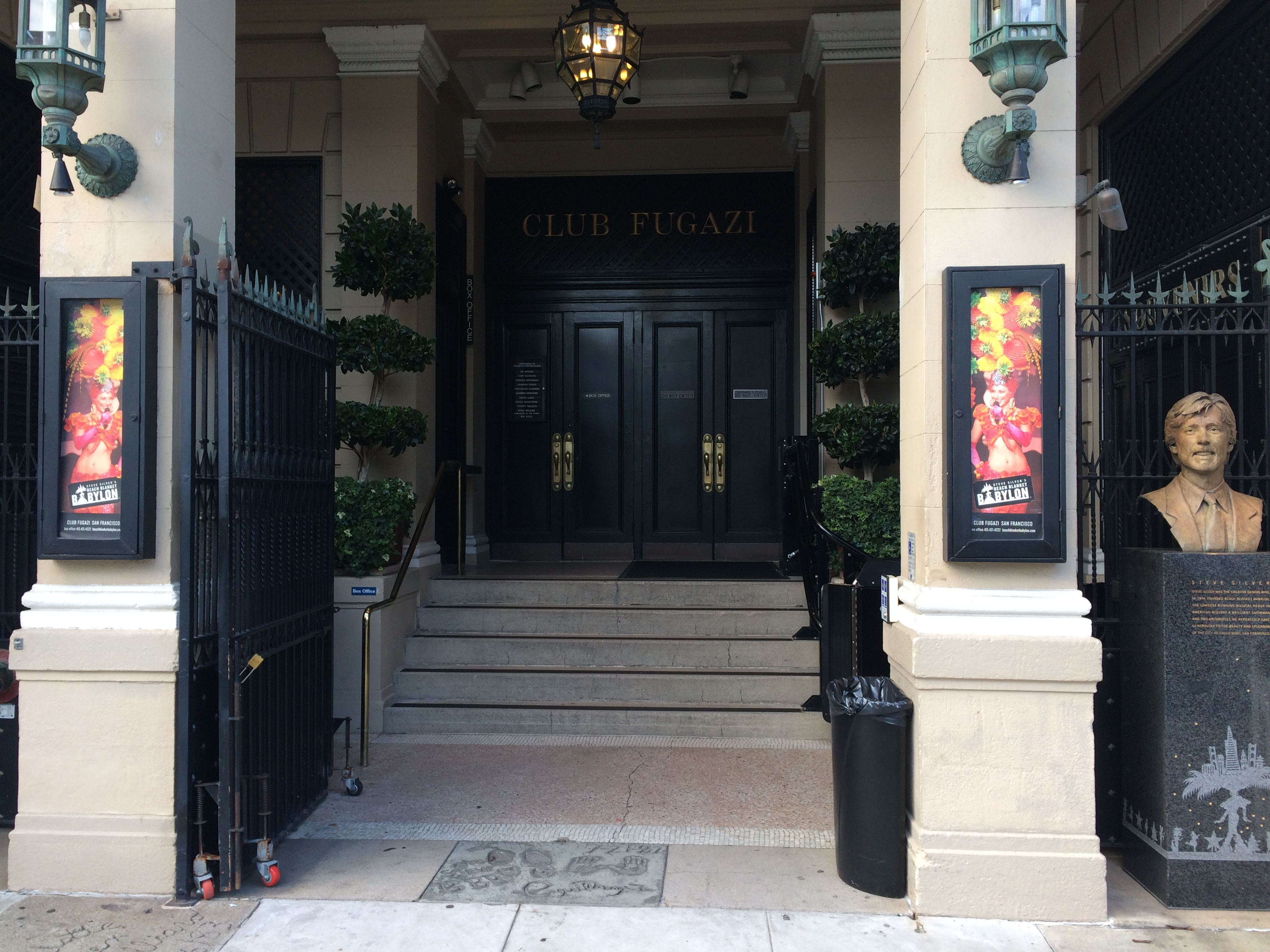 The entrance to Club Fugazi in San Francisco